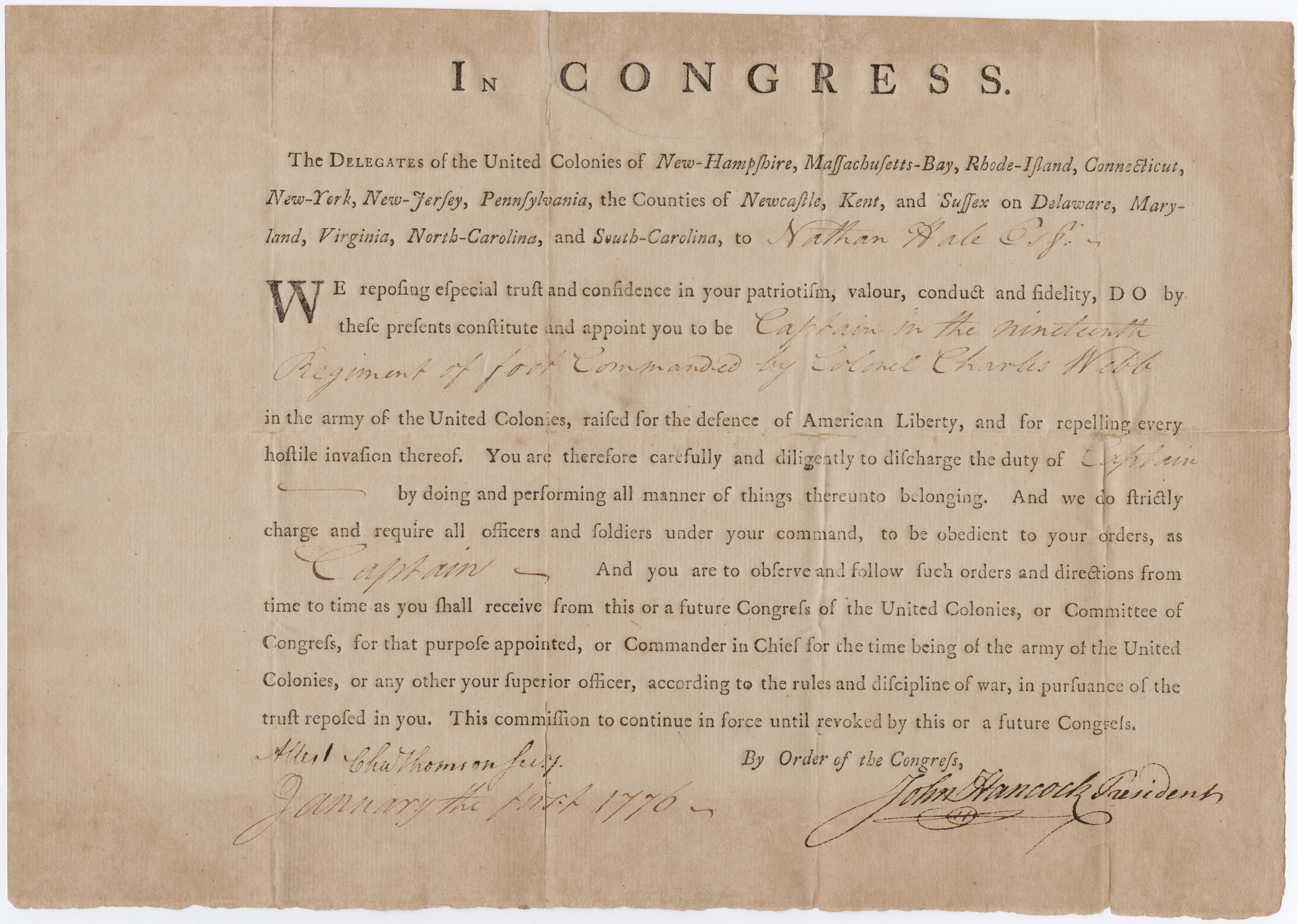 Document commissioning Nathan Hale a captain in the nineteenth regiment of foot commanded by Colonel Charles Webb. Signed by John Hancock. Dated 1 January 1776. 23.7 cm. x 33.6 cm. Courtesy of the collections of the Beinecke Rare Book & Manuscript Library, Yale University, New Haven, Connecticut.